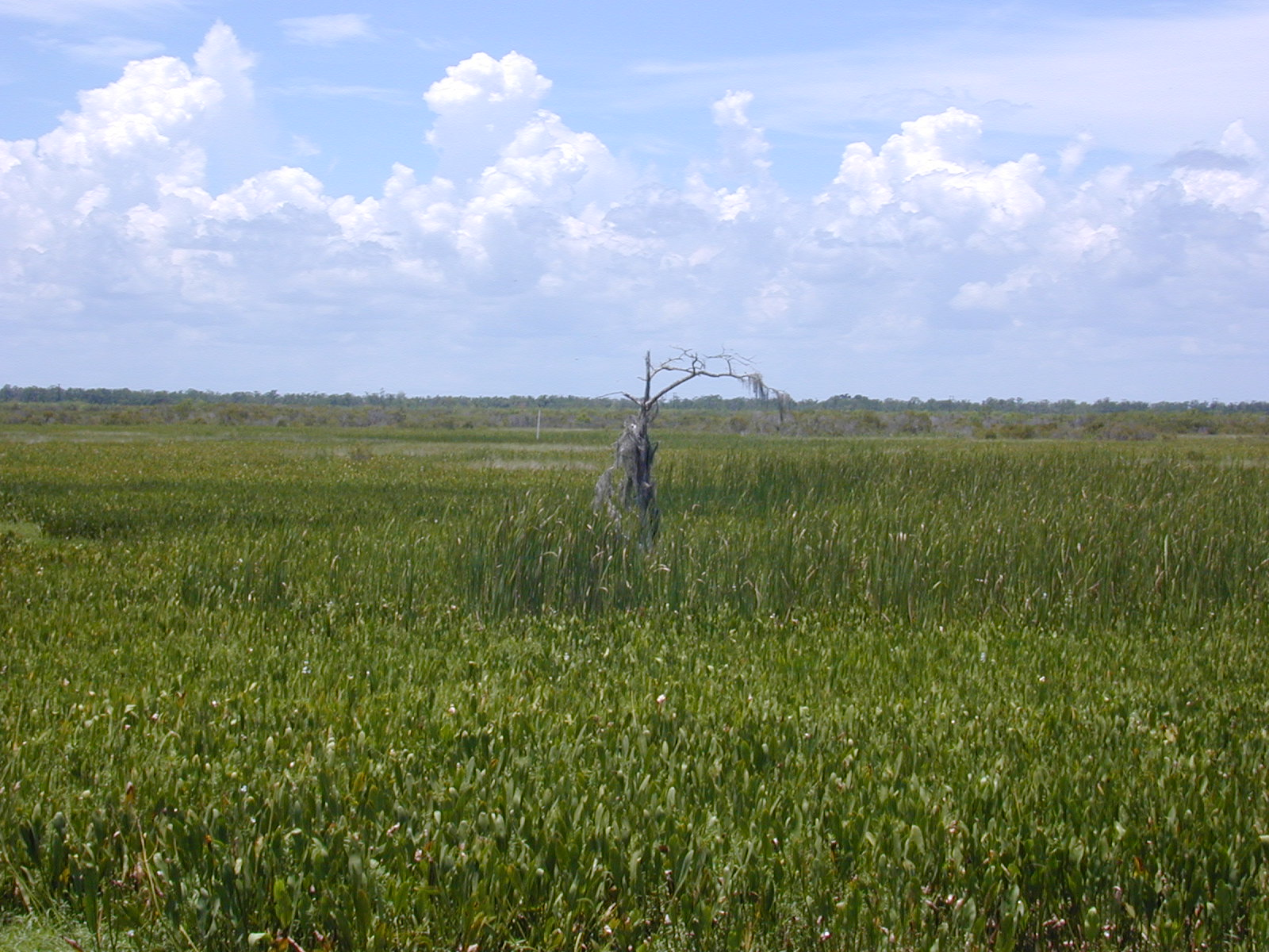 Marshland at Barataria Preserve, Louisiana Photo by Jan Kronsell, 2004